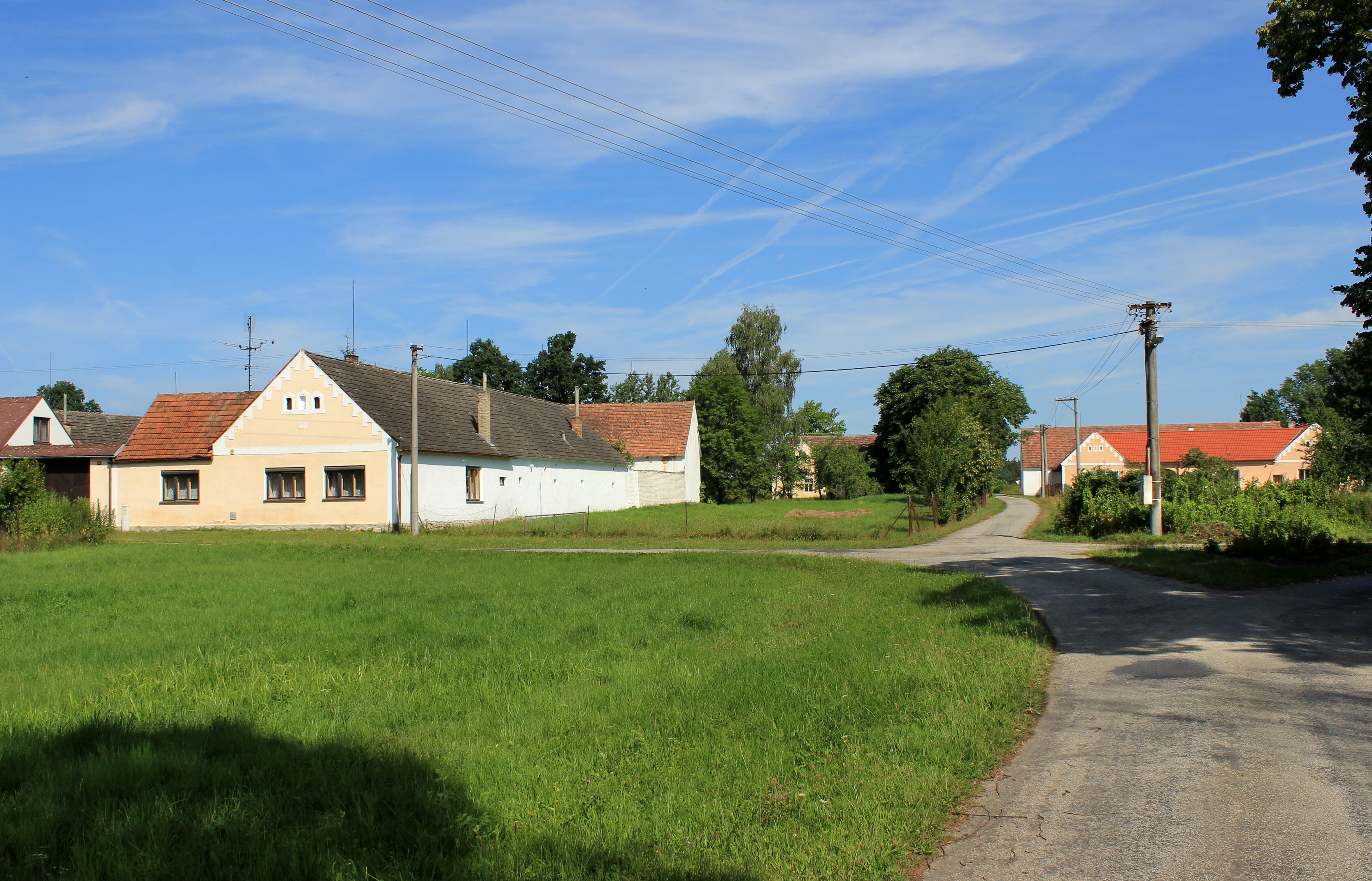 Common in Hrachoviště, Czech Republic.